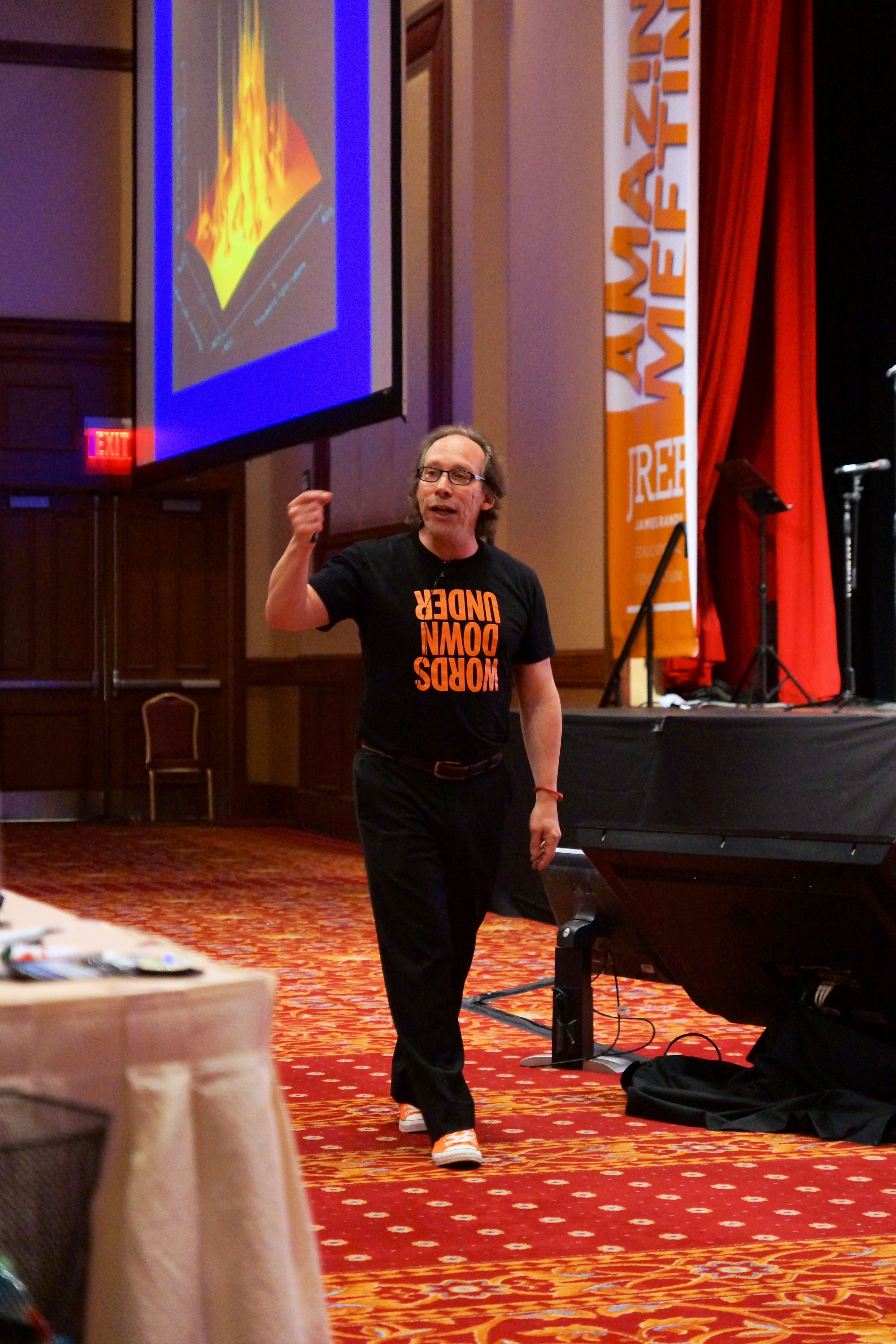 Dr. Lawrence Krauss addresses "The Future, and Nothing" at The Amaz!ng Meeting 2012 in Las Vegas, Nevada, July 14, 2012.